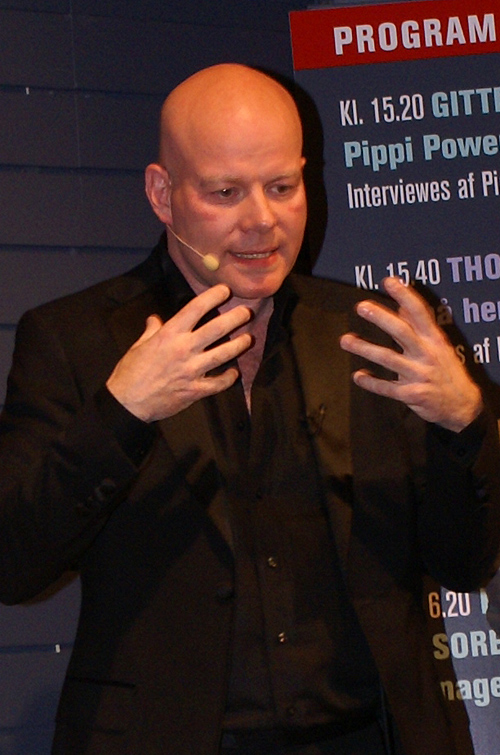 Thomas Blachman, Danish musician, composer and producer.